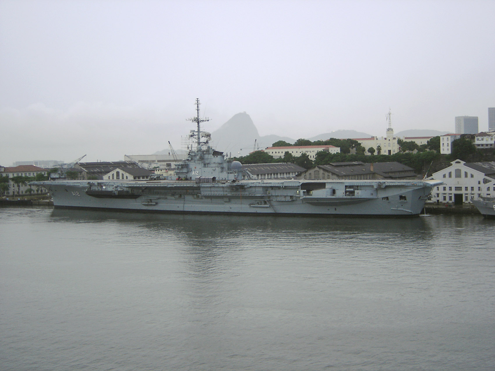 The Brazilian Aircraft carrier NAe São Paulo, formerly Foch of the French Navy, in the port of Rio de Janeiro. In the background, the Sugarloaf.